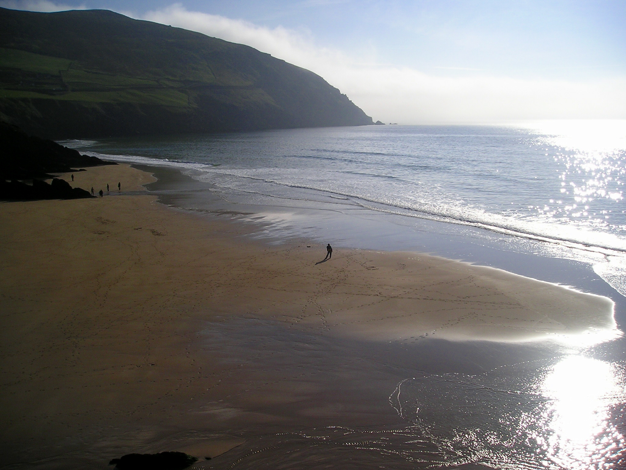 Beach at Slea Head in Ireland where Ryan's Daughter was filmed